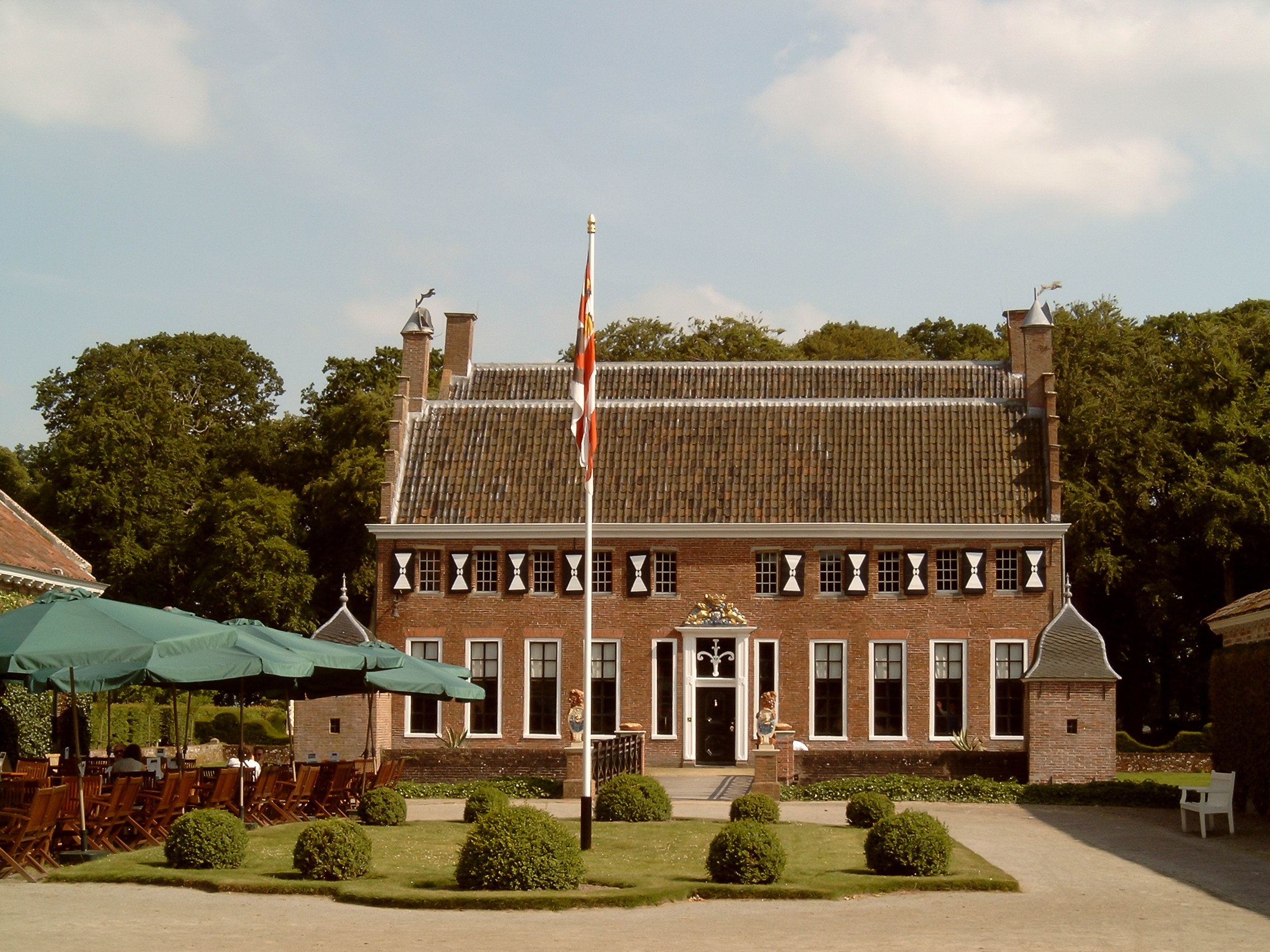 Uithuizen, castle: Menkemaborg